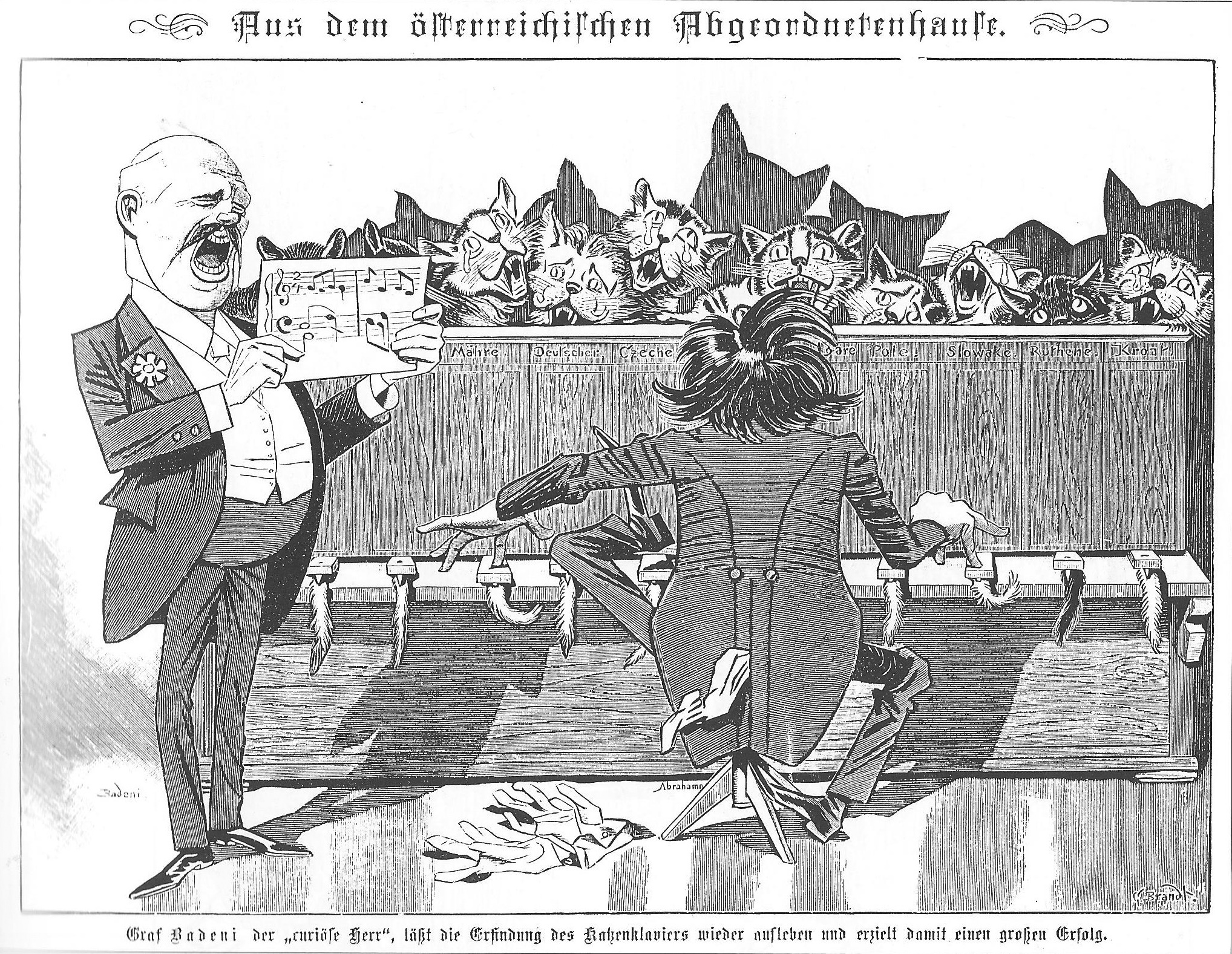 Caricature on the Austrian language regulation of Casimir Feliks Badeni: Count Badeni the "curious gentleman", revives the invention of the cat - klavier [catnip music] and thus achieves a great success. In order to solve the problem of nationality in Bohemia, on 5 April 1897 he had prescribed the knowledge and use of German and Czech for all officials. Not only among the Germans and Czechs but also among other nationalities in Austria-Hungary, this evoked negative reactions from Germans in Bohemia, as the Czech learned German in school, but few Germans knew Czech, excluding them from government jobs.